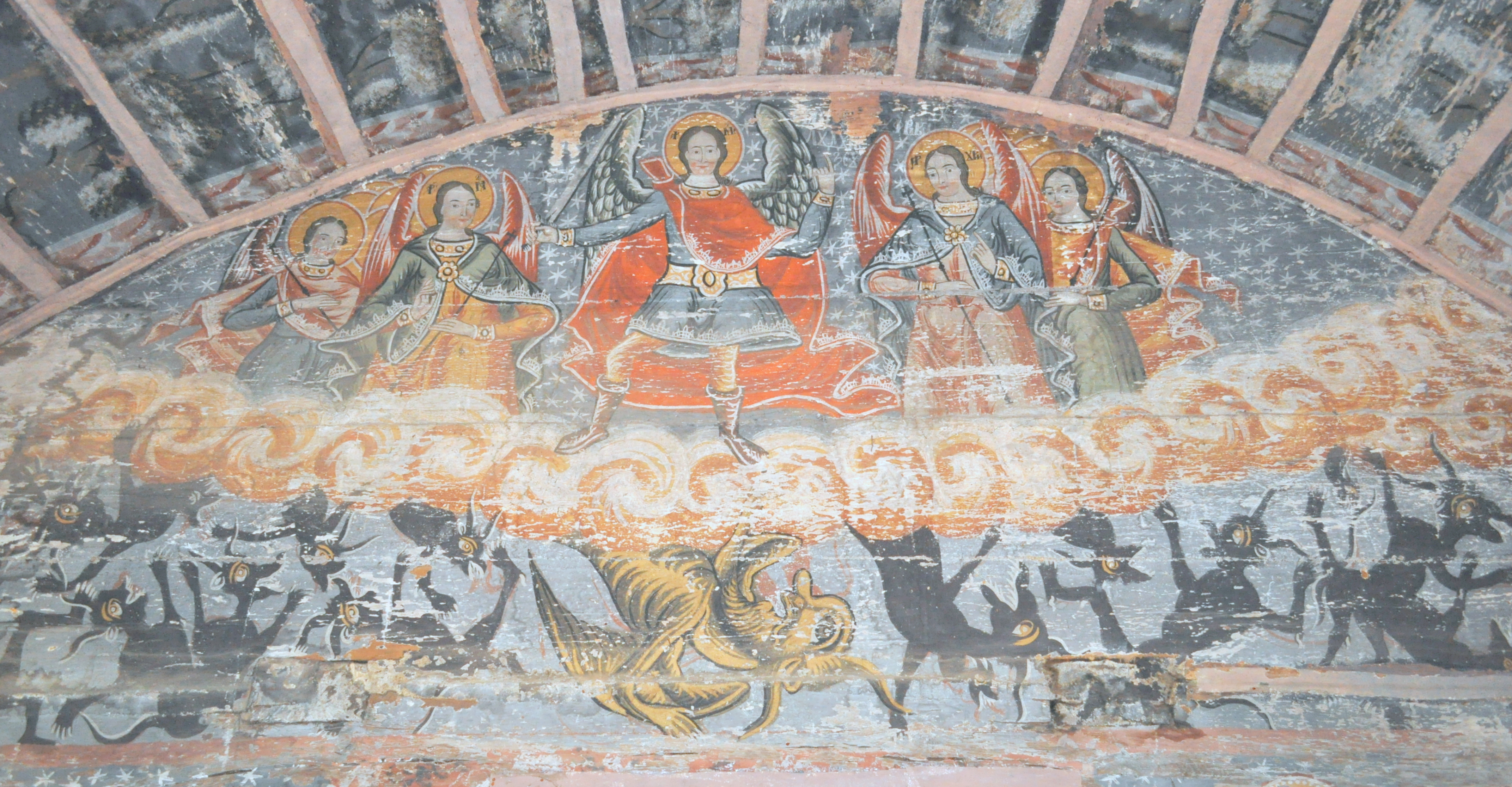 Wooden church in Micănești, Hunedoara county